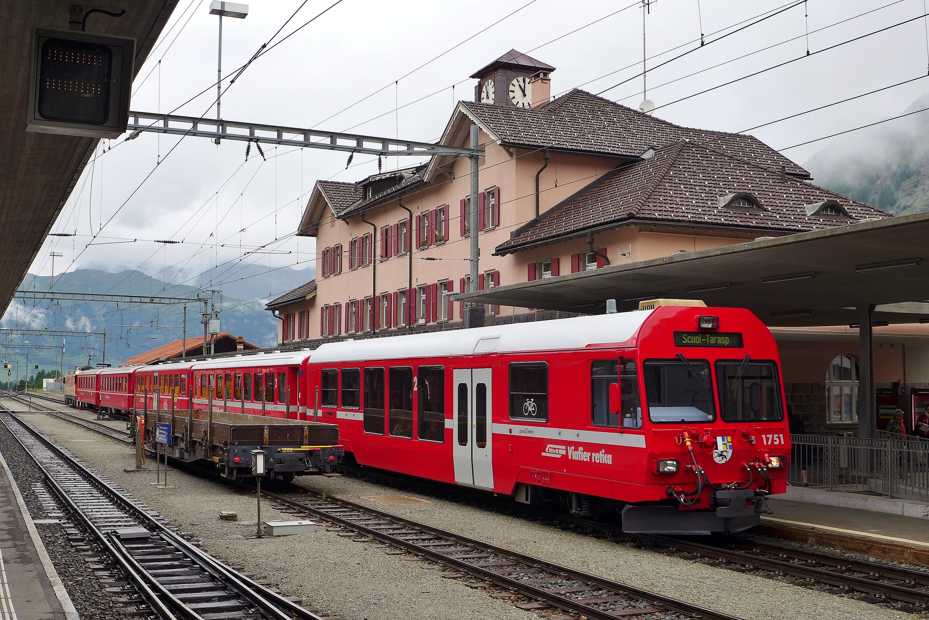 A Rhaetian Railway (RhB) push-pull train awaits departure from Pontresina railway station, Switzerland, with a regular service to Scuol-Tarasp, also in Switzerland.